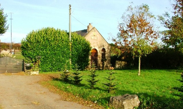 Former Methodist chapel at Bildershaw, County Durham